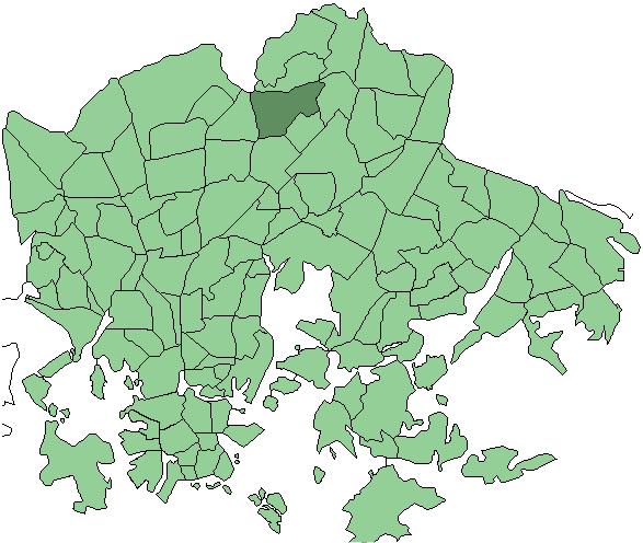 Districts of Helsinki, Tapaninvainio highlighted